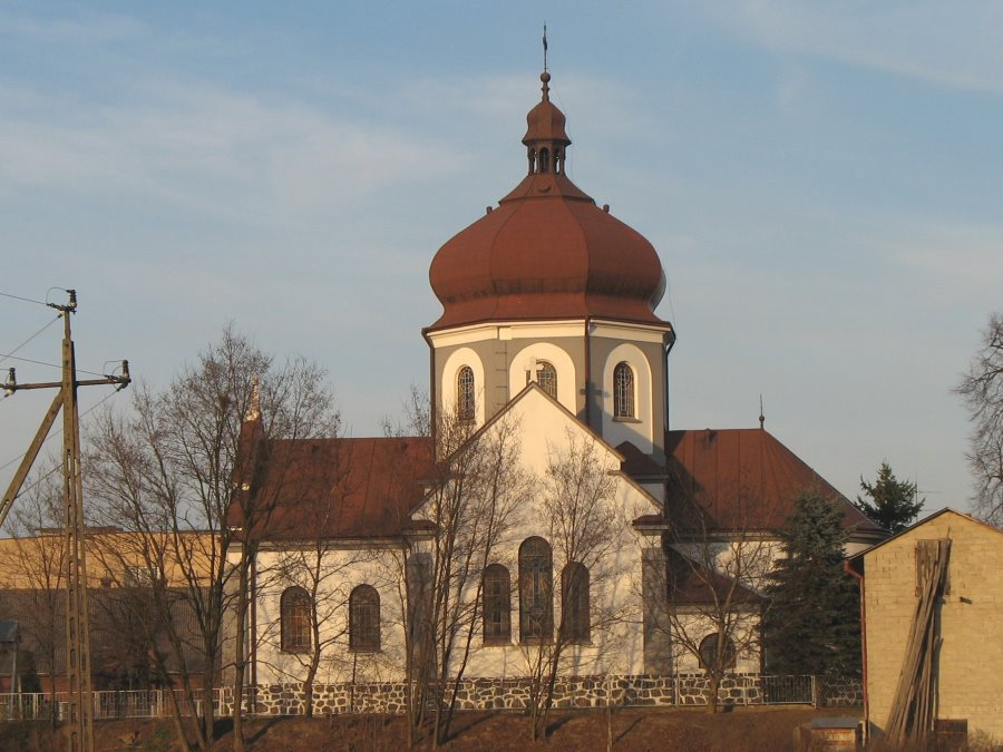 Makowisko village in Poland. Greek Catholic church (now Roman Catholic church).